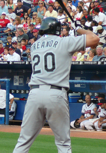 Picture I took of Matt Treanor on 6-5-07 22:52, 7 June 2007 . . Chrisjnelson . . 214×308 (134,625 bytes)